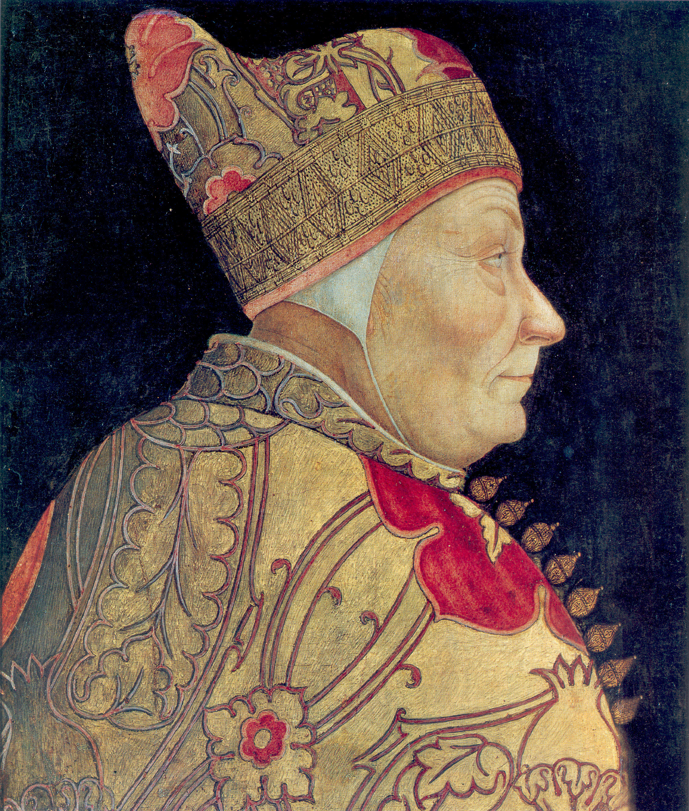 Portrait of the Venecian doge Francesco Foscari, Museo Civico Correr, Venice